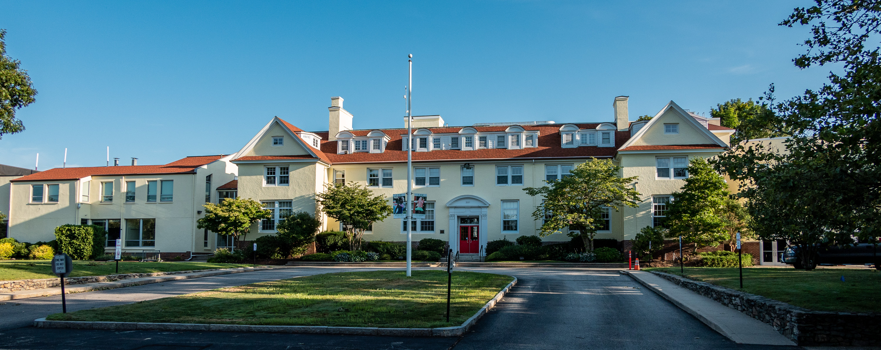 Lincoln School main campus building at 301 Butler Avenue, Providence RI